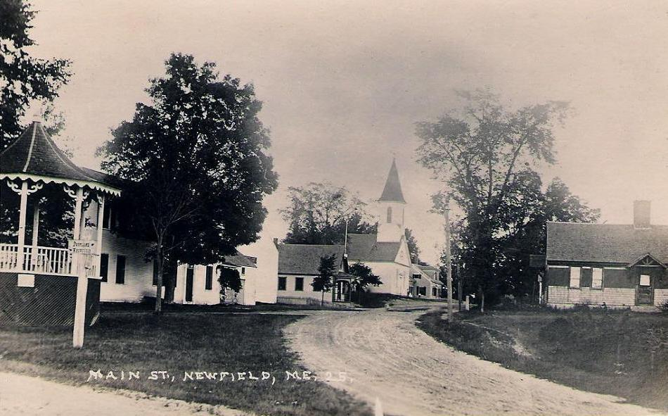 View of town center, Newfield, Maine